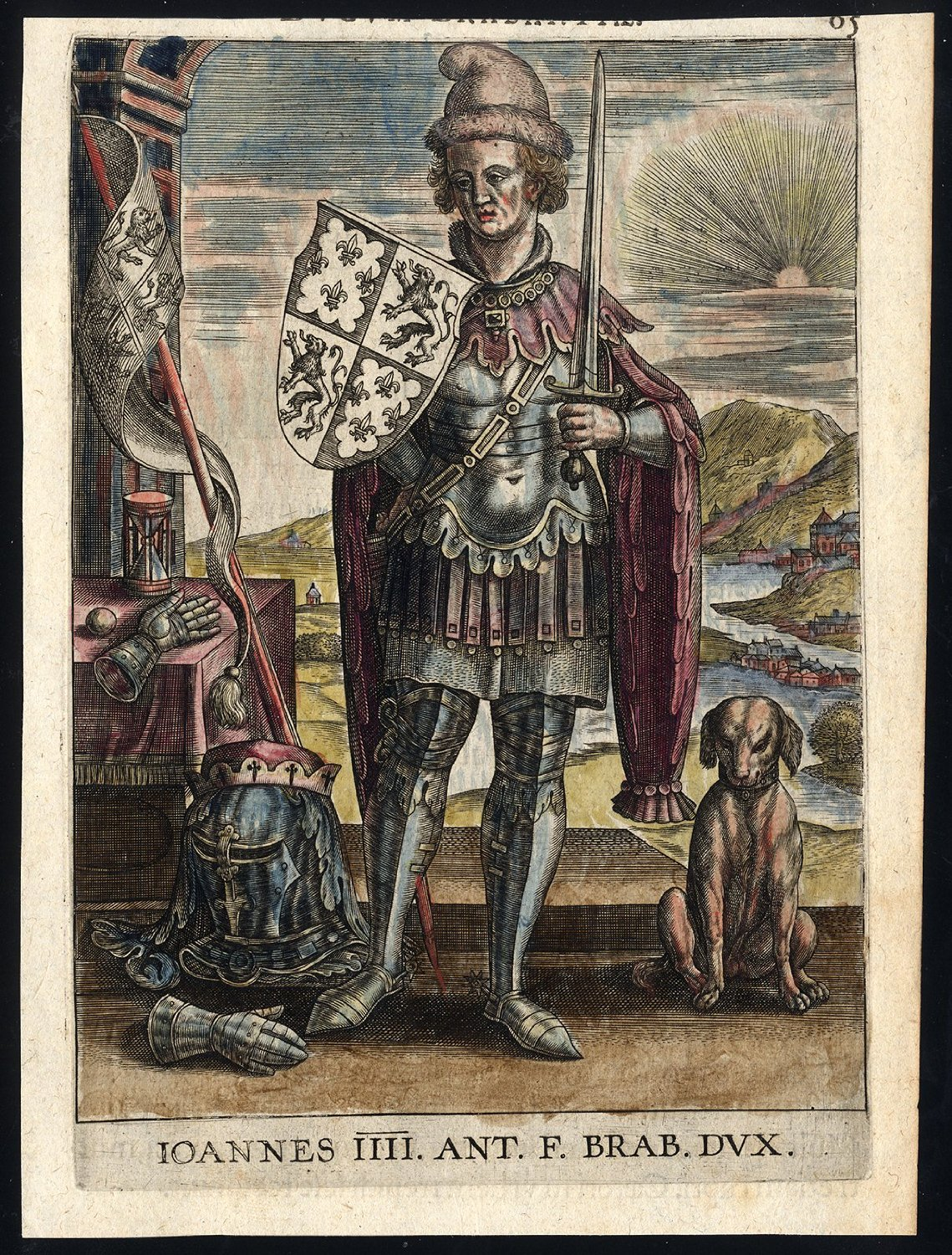 John IV, Duke of Brabant